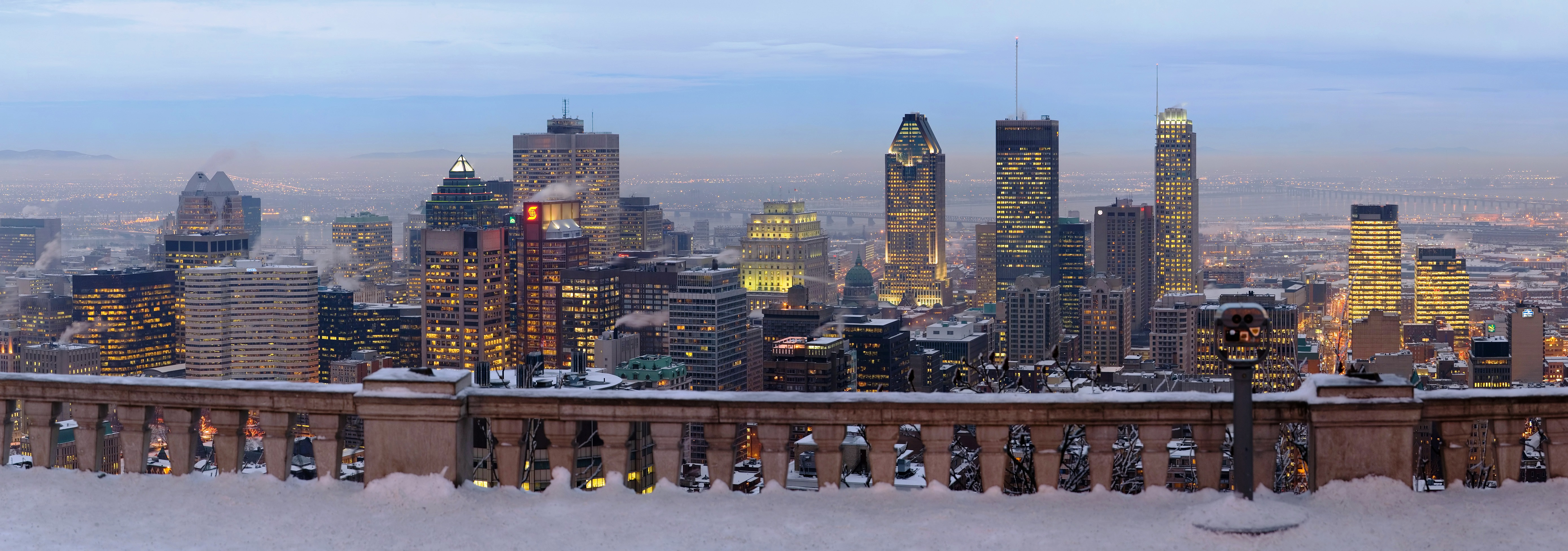 A view from the Chalet du Mont Royal overlooking downtown Montreal. This is a 9 segment panorama stitched in portrait format and taken with a Canon 5D and 24-105mm f/4L IS at f/8.